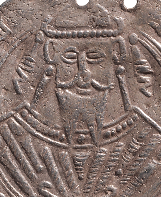 Cropped image of the coin issued by and depicting caliph Al-Mutawakkil